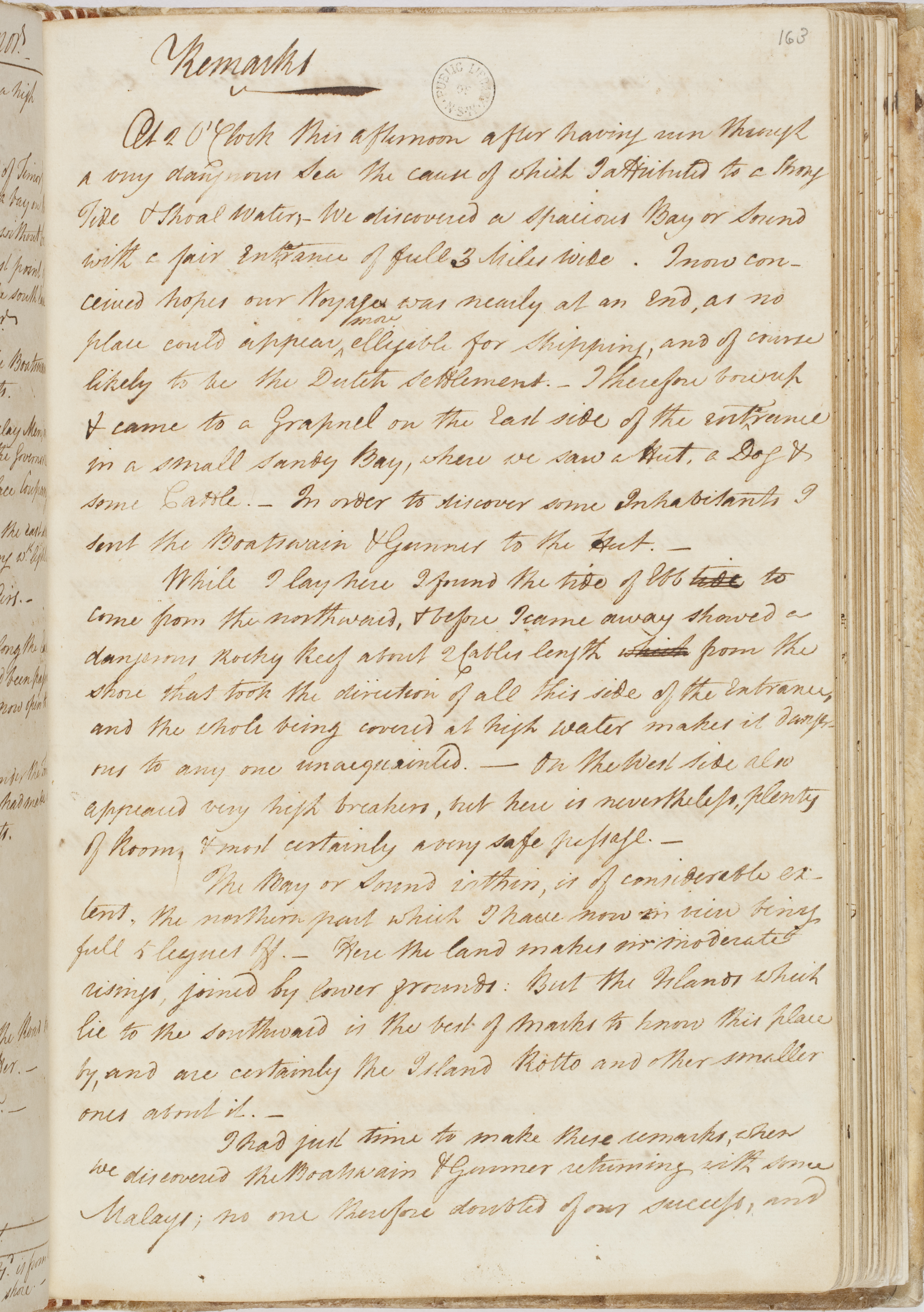 June 14, Log of the Proceedings of His Majesty's Ship Bounty, 5 Apr. 1789 -13 Mar. 1790, bound manuscript, Safe 1 / 47